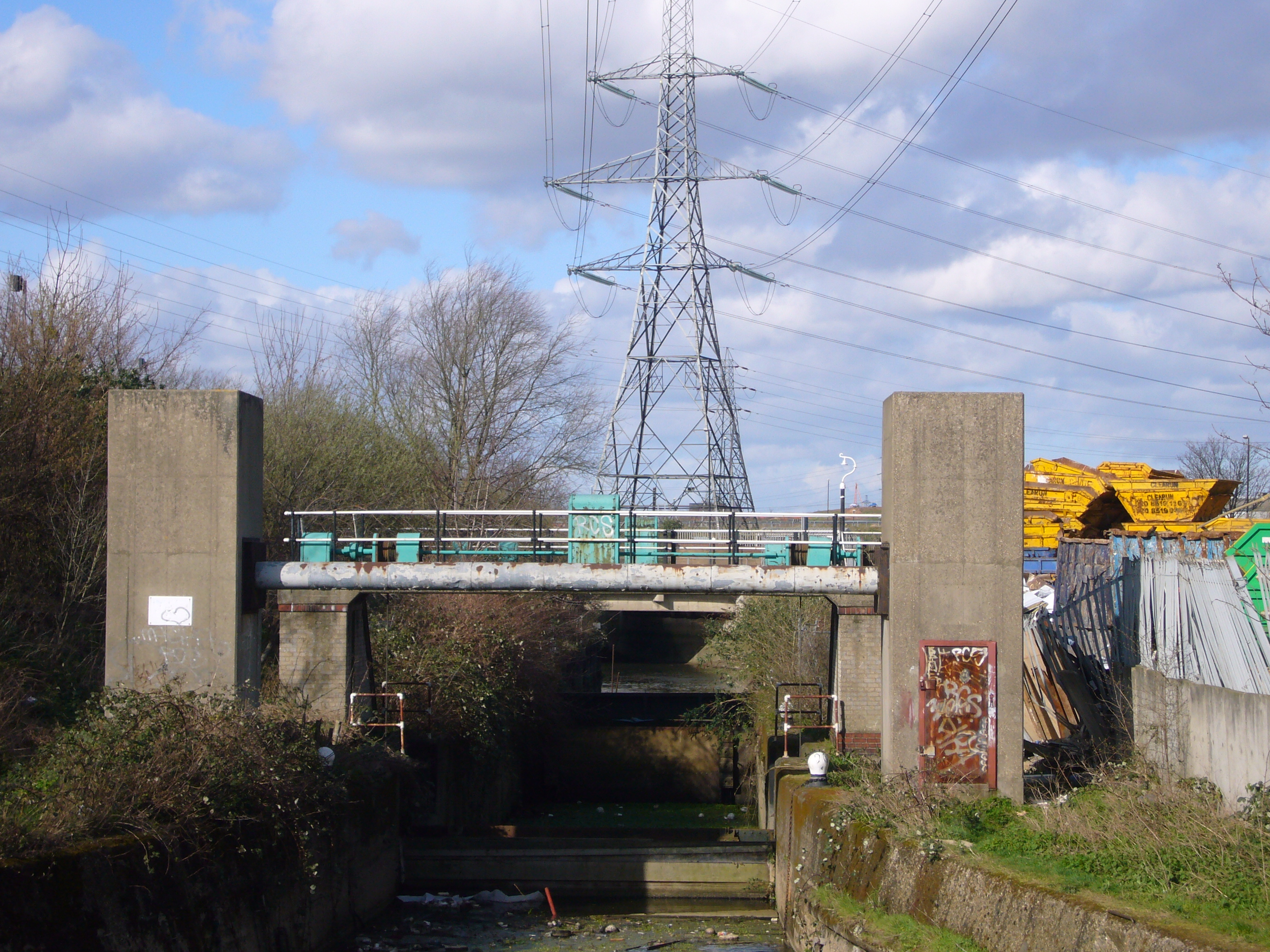 Carpenters Lock from Marshgate Lane